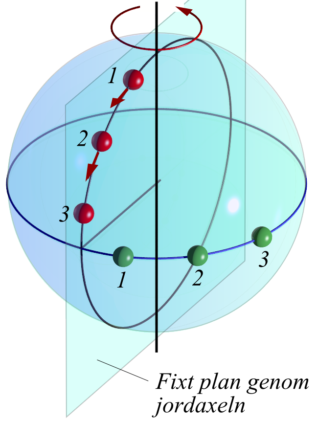 Illustration of the Coriolis effect